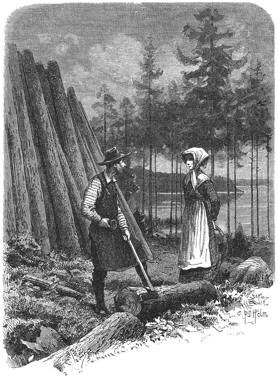 A troll woman meets a man cutting wood in the forest. Note the tail she is holding sticking out from under the skirt. This kind of female troll is called huldre in Norwegian folklore and skogsrået in Swedish folklore. From "Swedish Fairy Tales" by Herman Hofberg.